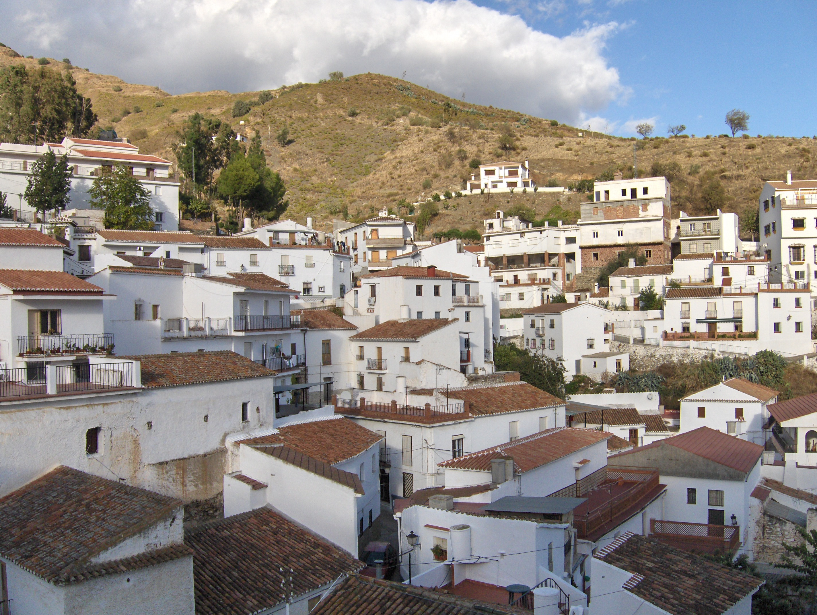 View of El Borge, Málaga, Spain